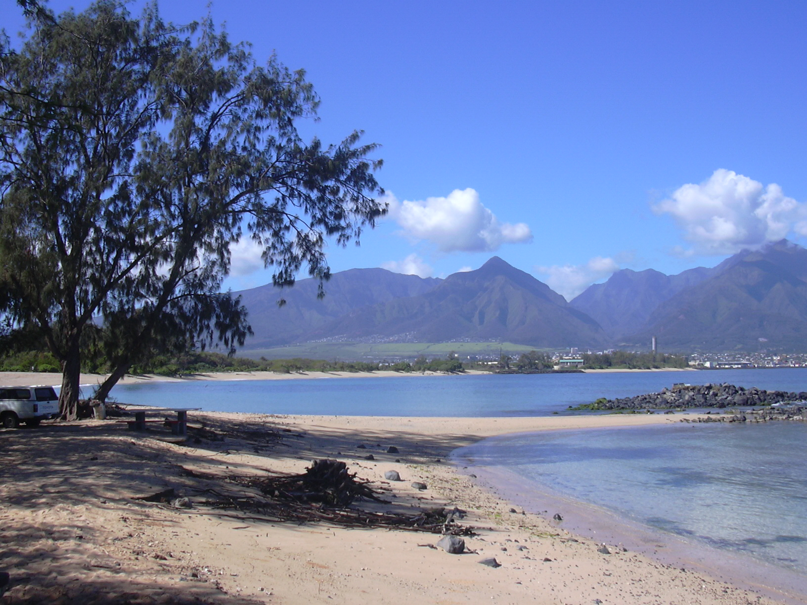 Casuarina equisetifolia (habit). Location: Maui, Kanaha Beach